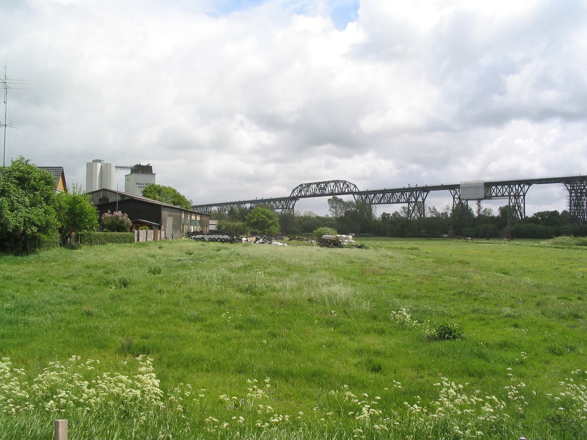 Railway bridge over the Kiel Canal in Hochdonn